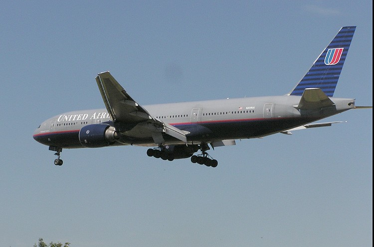 United Airlines Boeing 777 (variant and registration unknown) landing at London (Heathrow) Airport. Taken by Adrian Pingstone in August 2004 and released to the public domain.